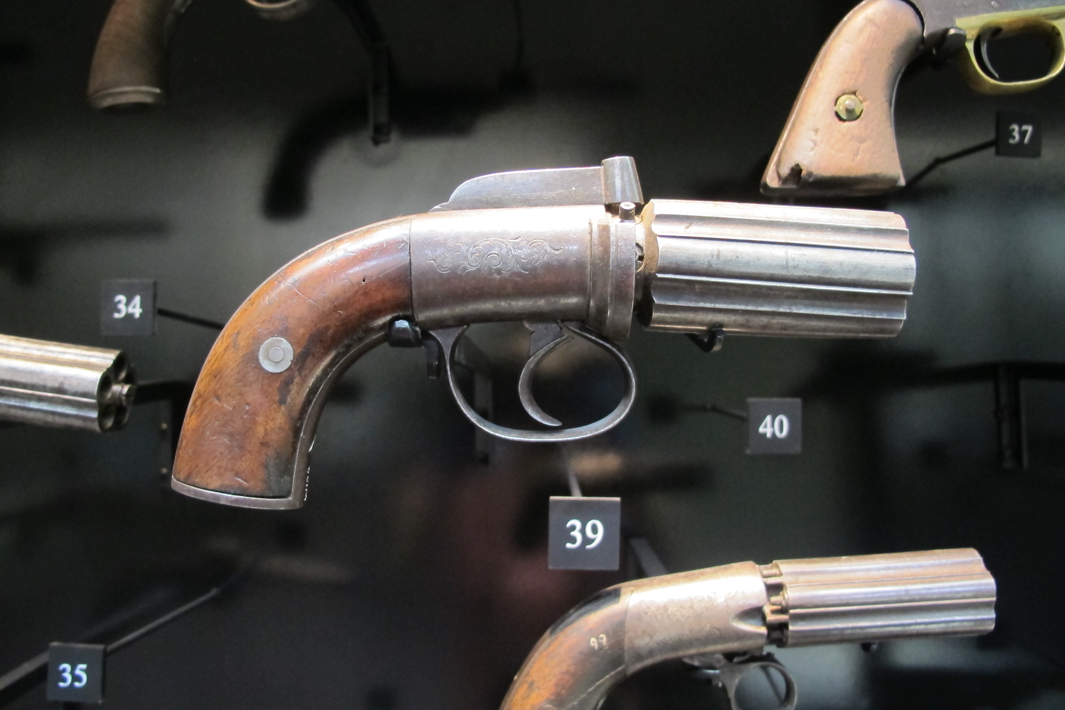 Percussion pepperbox pistol, 19th century pepperbox; percussion; 6 shot; smoothbore barrels; bar hammer, double action; .32 inch calibre; foliate engraving on frame and butt plate; two-piece walnut grips marking- each barrel proof marked manufacturer Birmingham gun trade, c.1800s